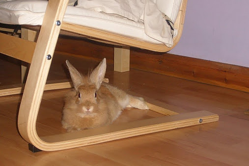 Relaxed rabbit